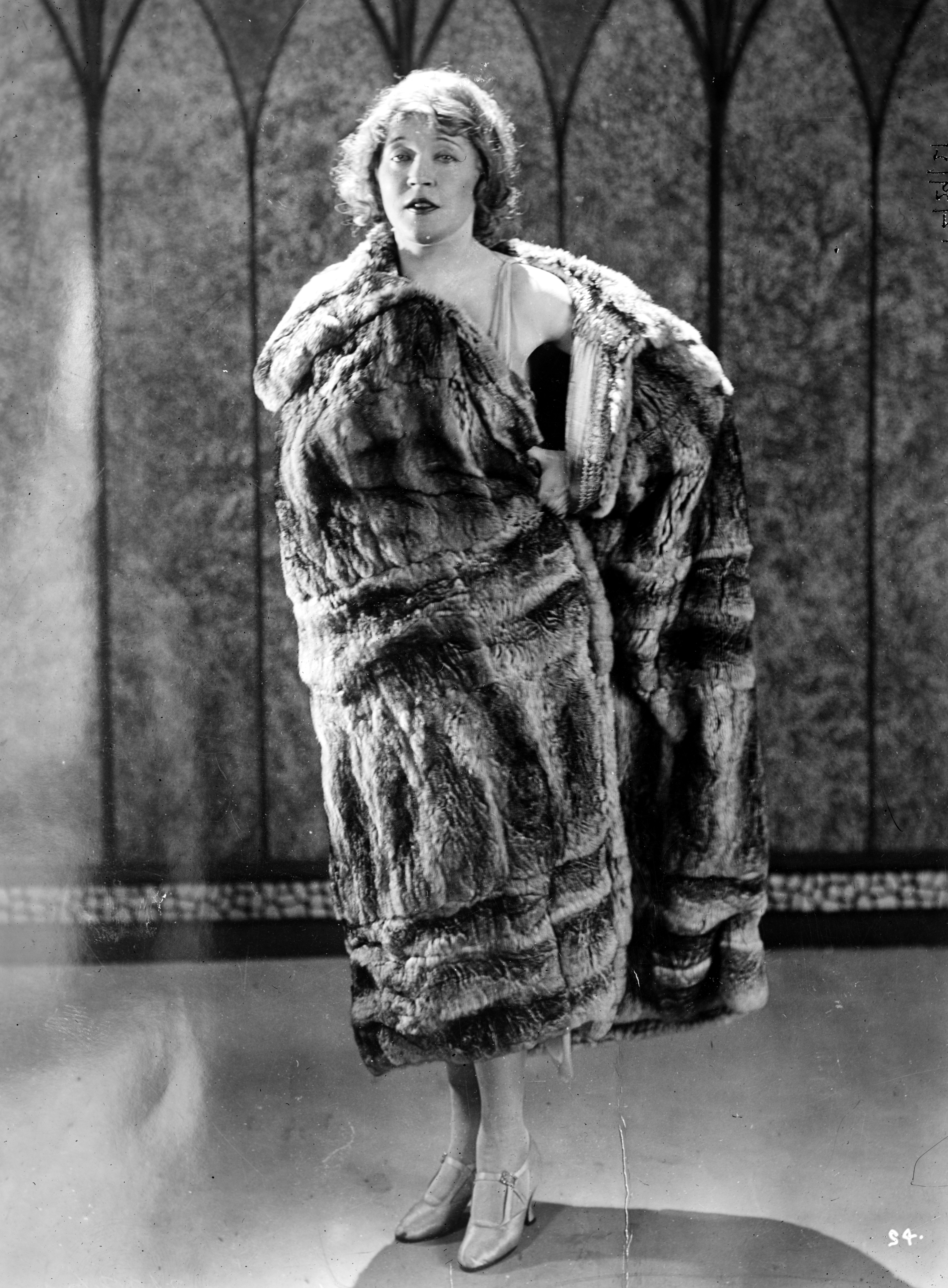 Mae Murray in chinchilla coat